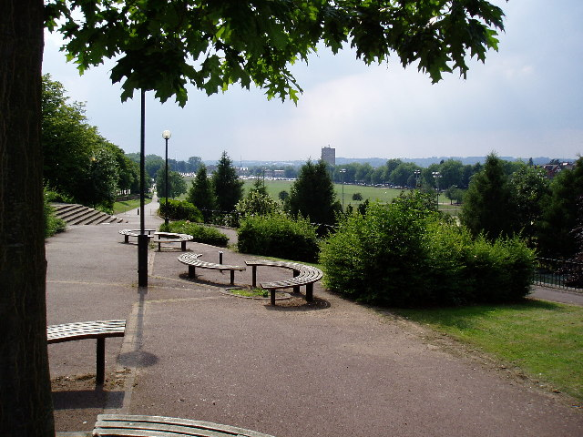 Forest Recreation Ground, Nottingham. The Forest Recreation Ground as seen from Mansfield Road. Originally used by Nottingham's racecourse, the Forest now provides the venue for the annual Goose Fair.